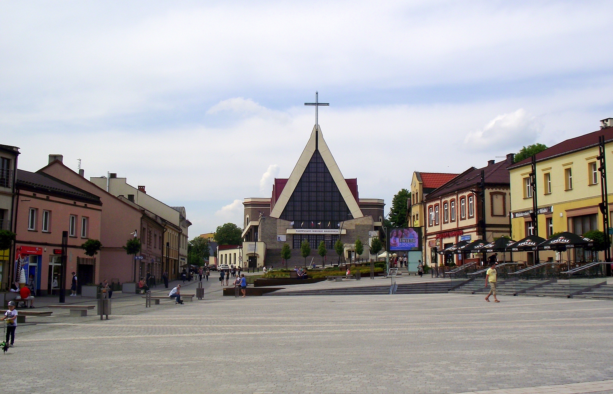 Main Square and the collegiate church in Jaworzno, Poland.